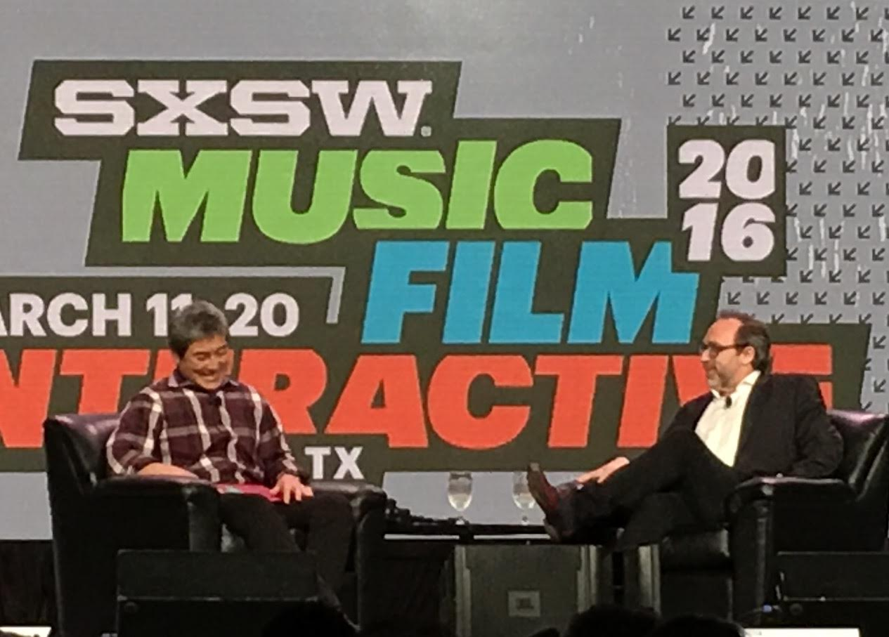 SXSW Guy Kawasaki Jimmy Wales